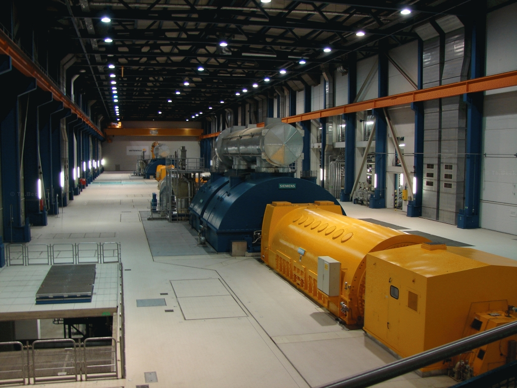 Turbinenhalle_KSP, in a Vattenfall-owned power station